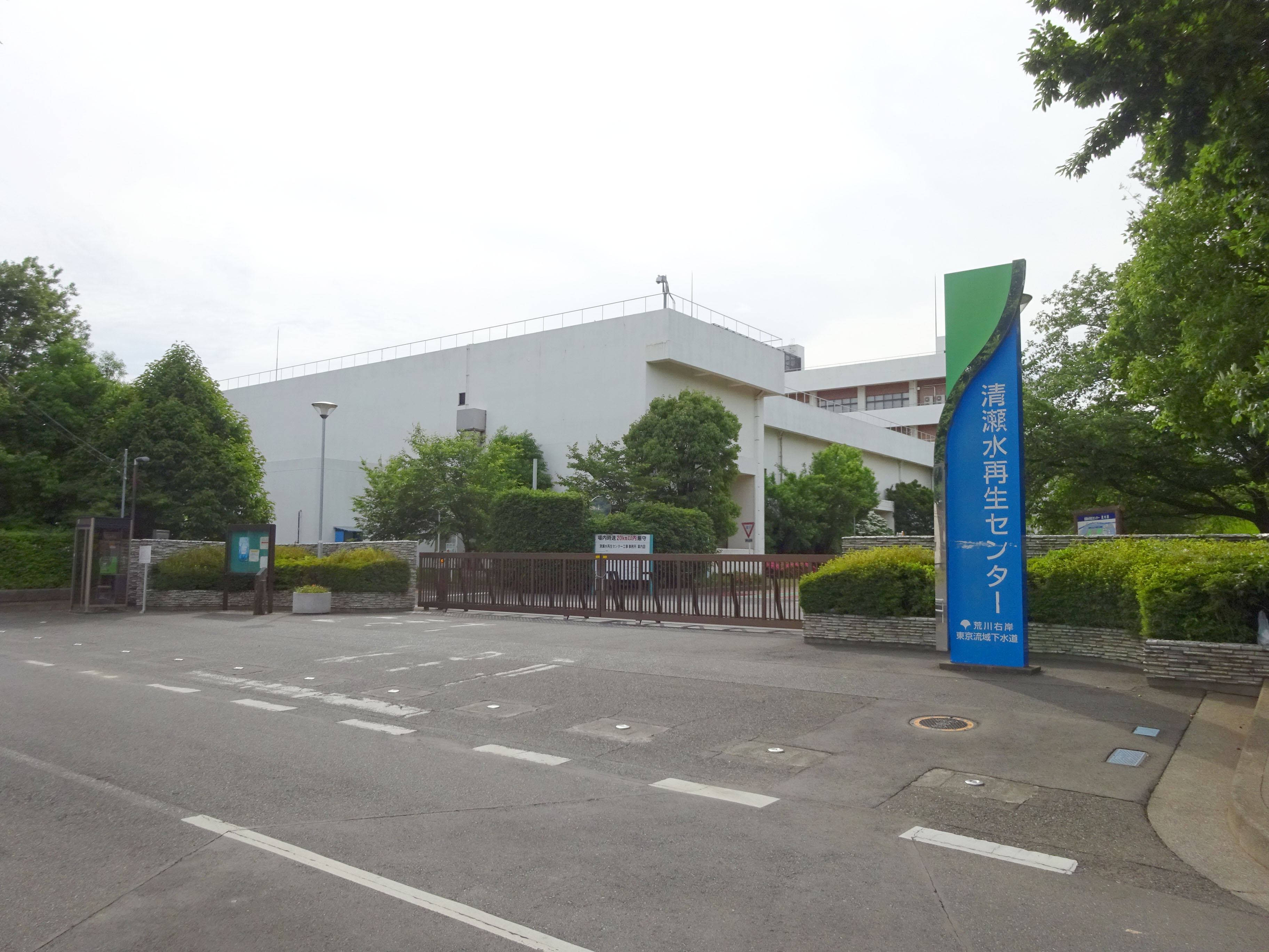 Kiyose Water Reclamation Center, Tokyo